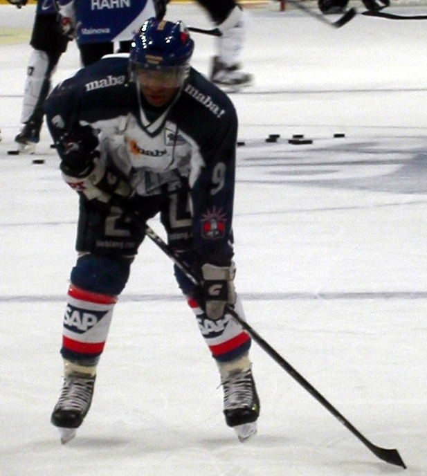 Nathan Robinson, Ice Hockey Player, Forward, Adler Mannheim